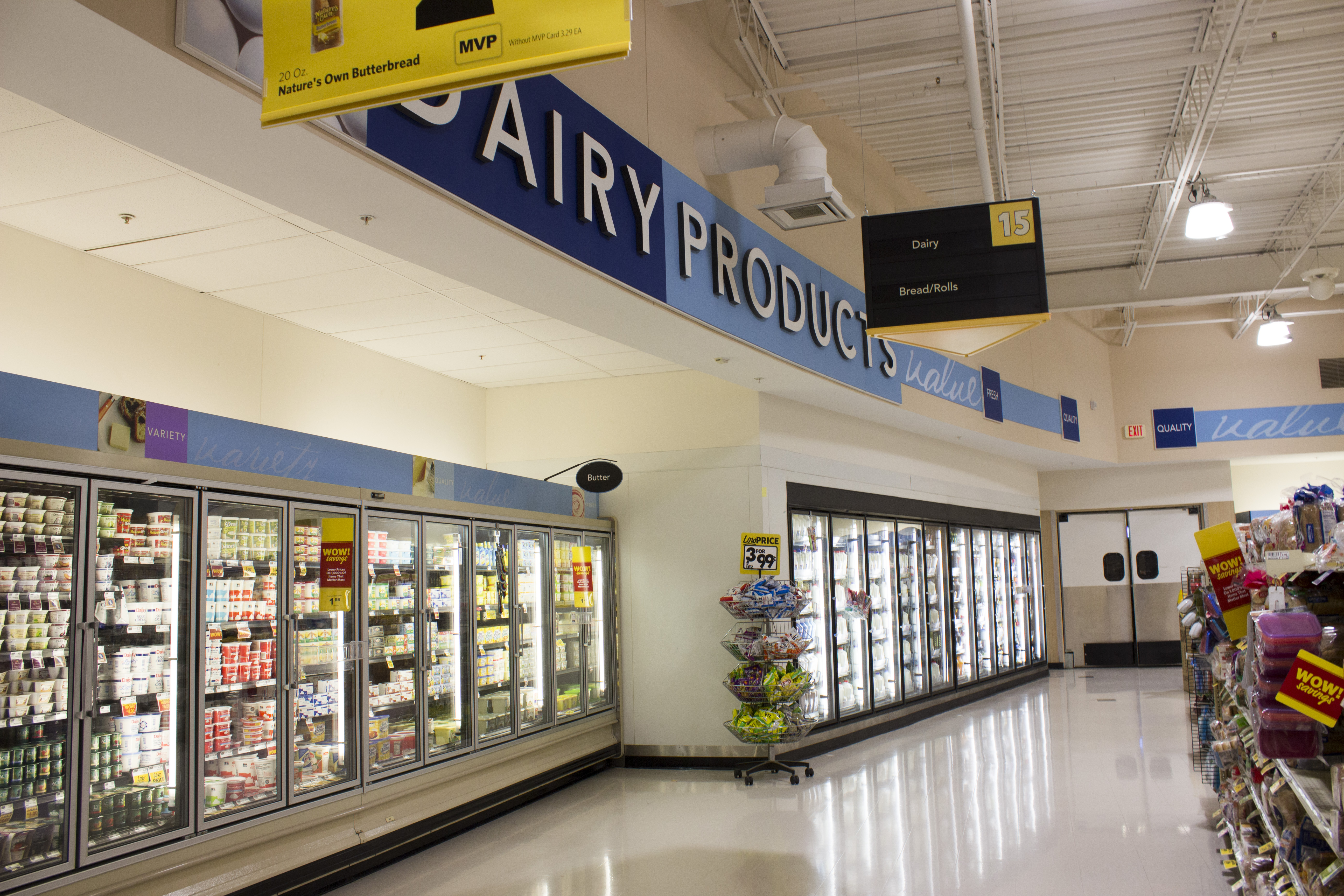 This is Food Lion #2605, located at 1164 Big Bethel Road in Hampton, VA. This location was opened in 2004. By my best guess, this was a concept design that was attempting to be similar to Bloom that was never fully rolled out. Looks like a round format store without the round front to me.